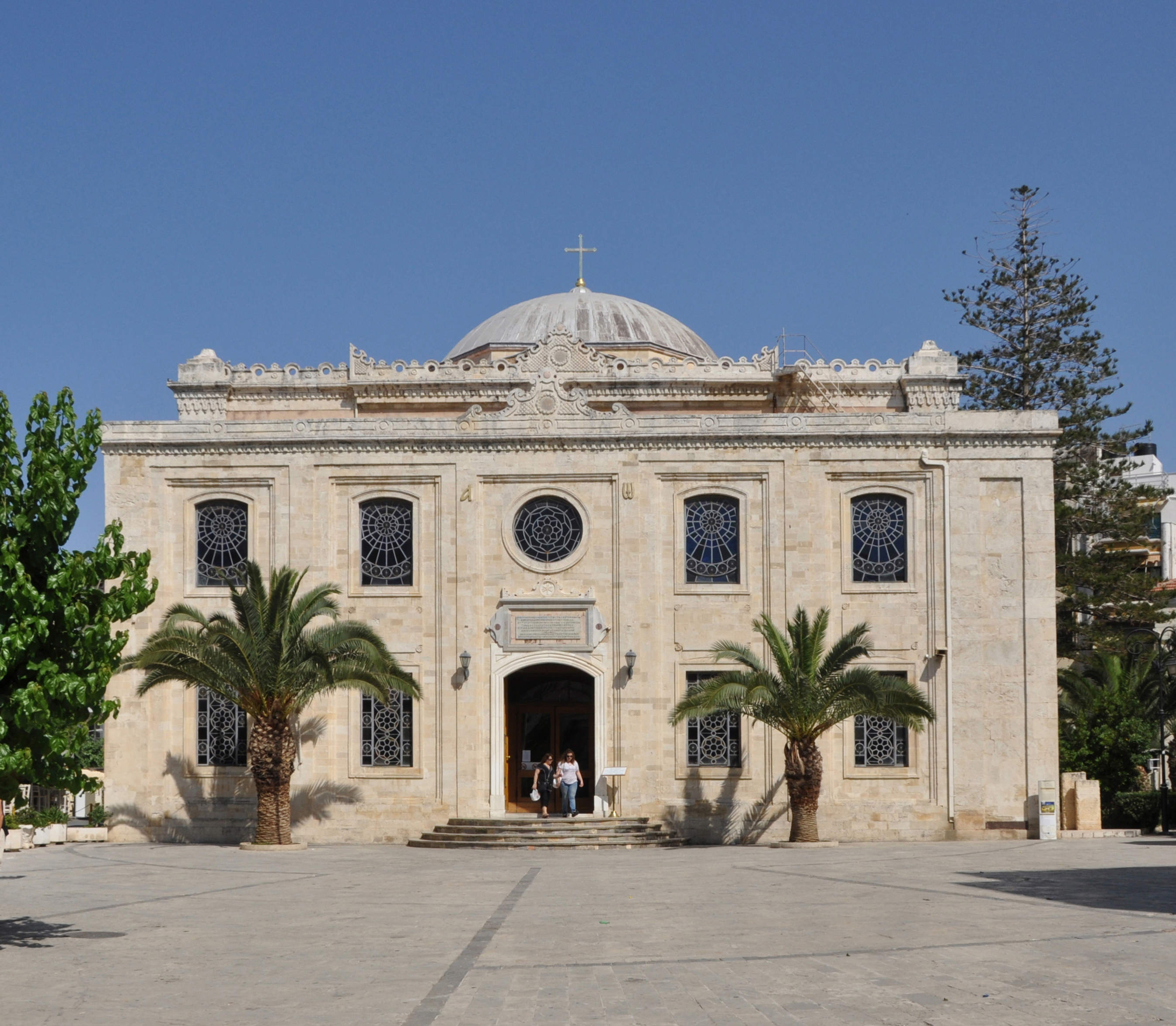 Heraklion (Crete, Greece): basilica of St Titus